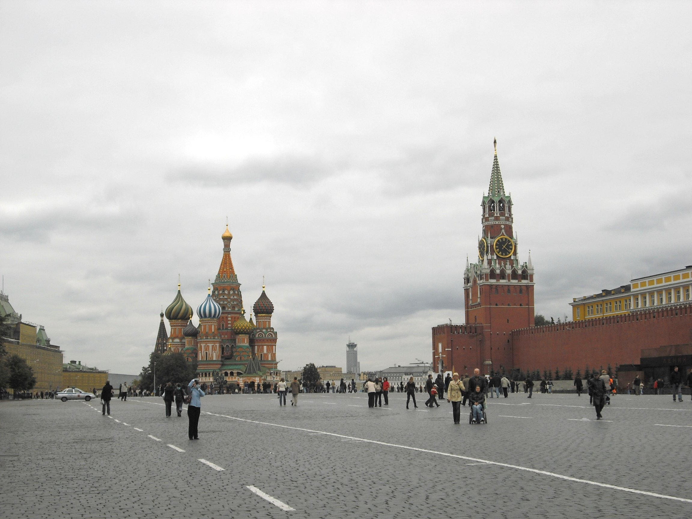 Red Square in Moscow, Russia